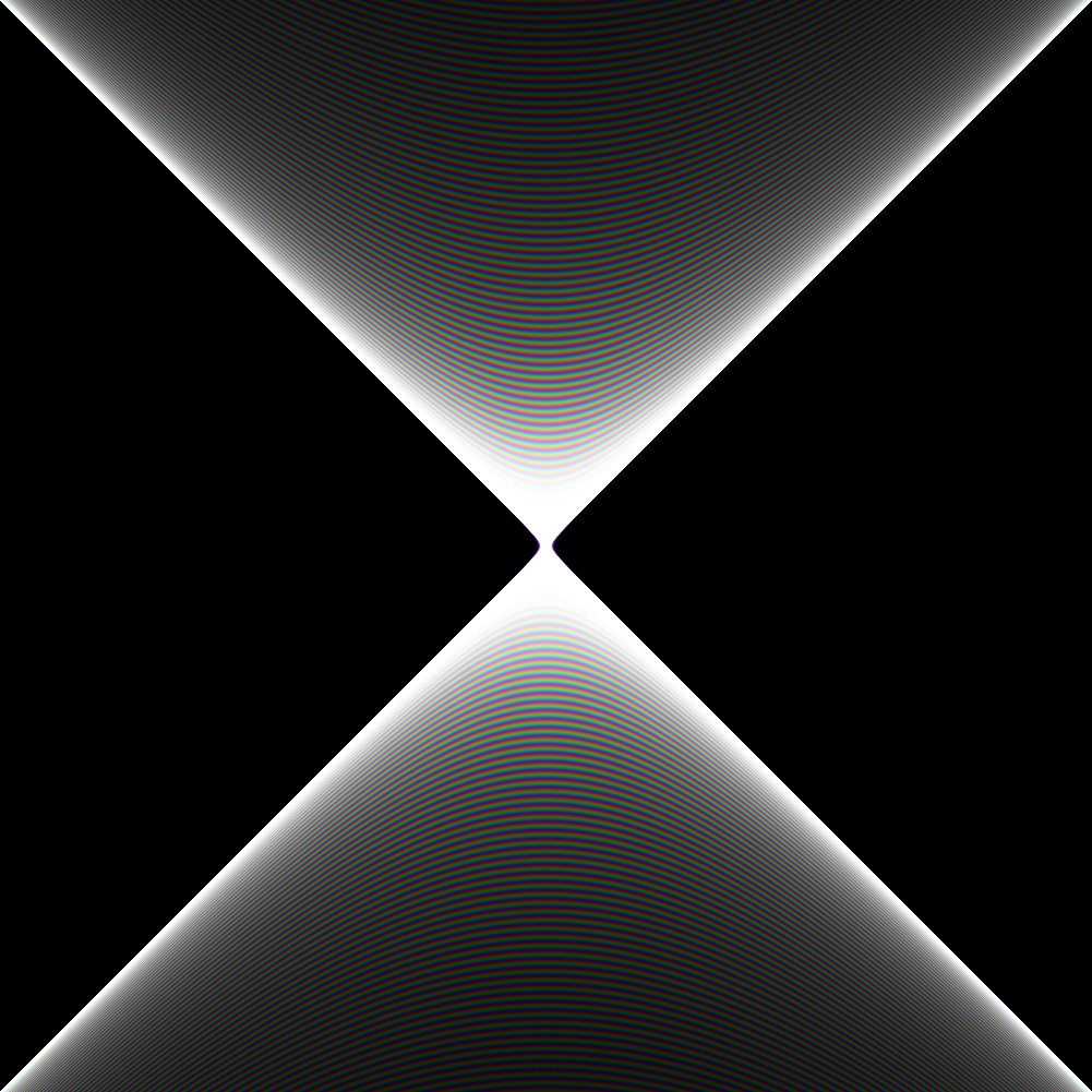 Feynman propagator, m = 200, left/right/top/bottom bounds of image are at = ±2.